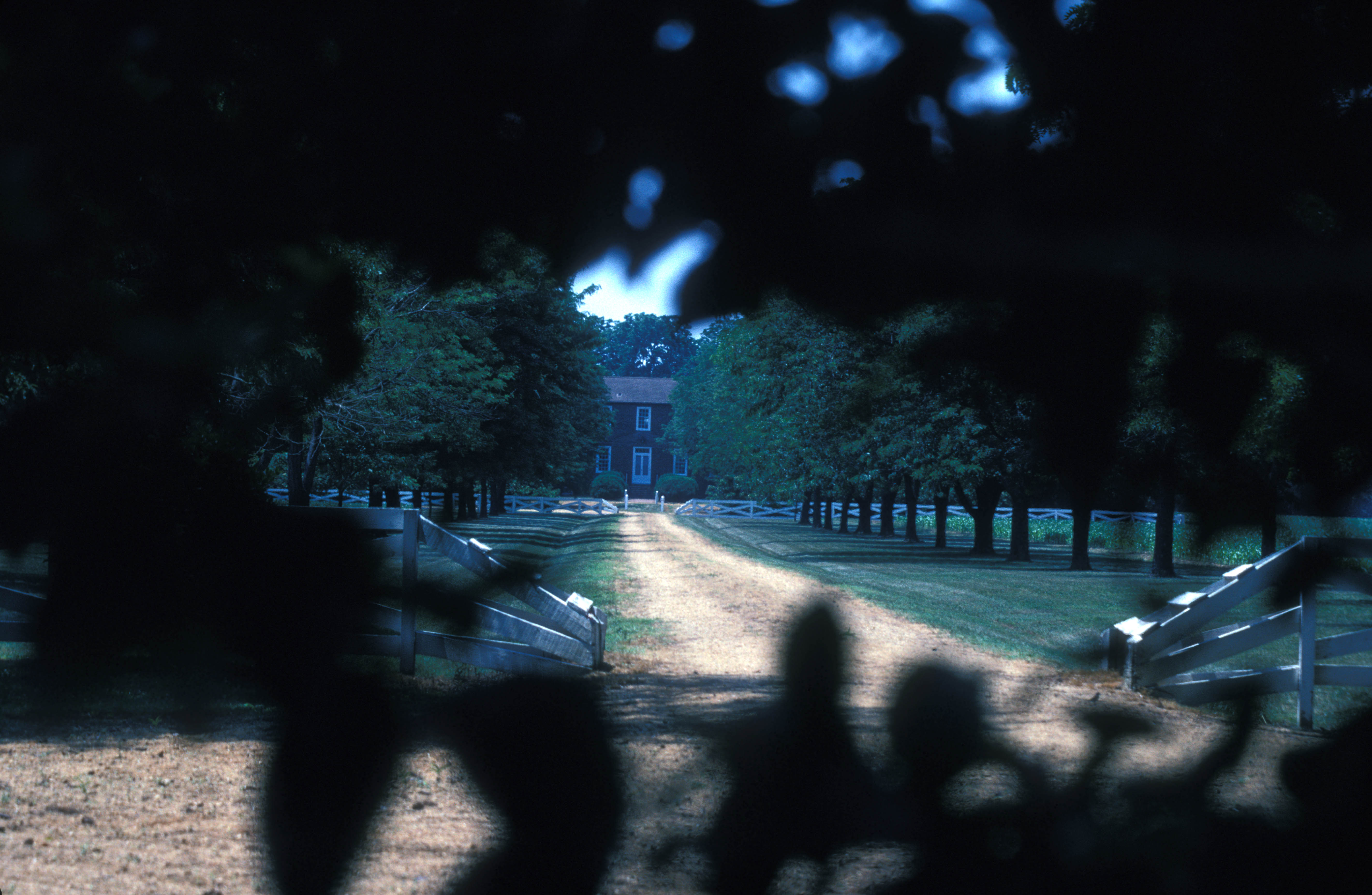 FOX HILL PLANTATION